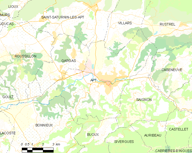 Map of French municipality Apt